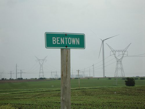 Bentown, Illinois: location sign in foreground; wind turbines and power lines in background